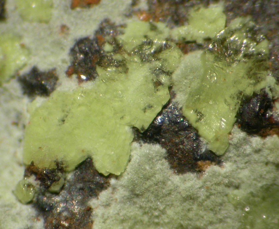 Grimselite, Čejkaite Locality: Svornost Mine (Einigkeit Mine), Jáchymov (St Joachimsthal), Jáchymov District (St Joachimsthal), Krušné Hory Mts (Erzgebirge), Karlovy Vary Region, Bohemia (Böhmen; Boehmen), Czech Republic Yellow lustrous tabular grimselite crystals on a bed of pale green cejkaite needles. Field of view 4 mm. Specimen and photo Leon Hupperichs.